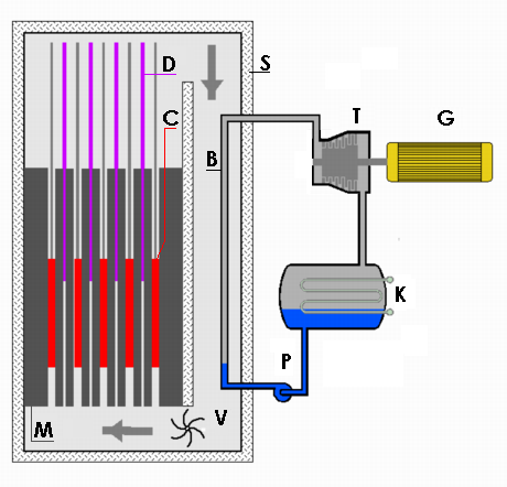 Schematic of GEC-Magnox gas graphite nuclear reactor Author : R. Castelnuovo (myself)